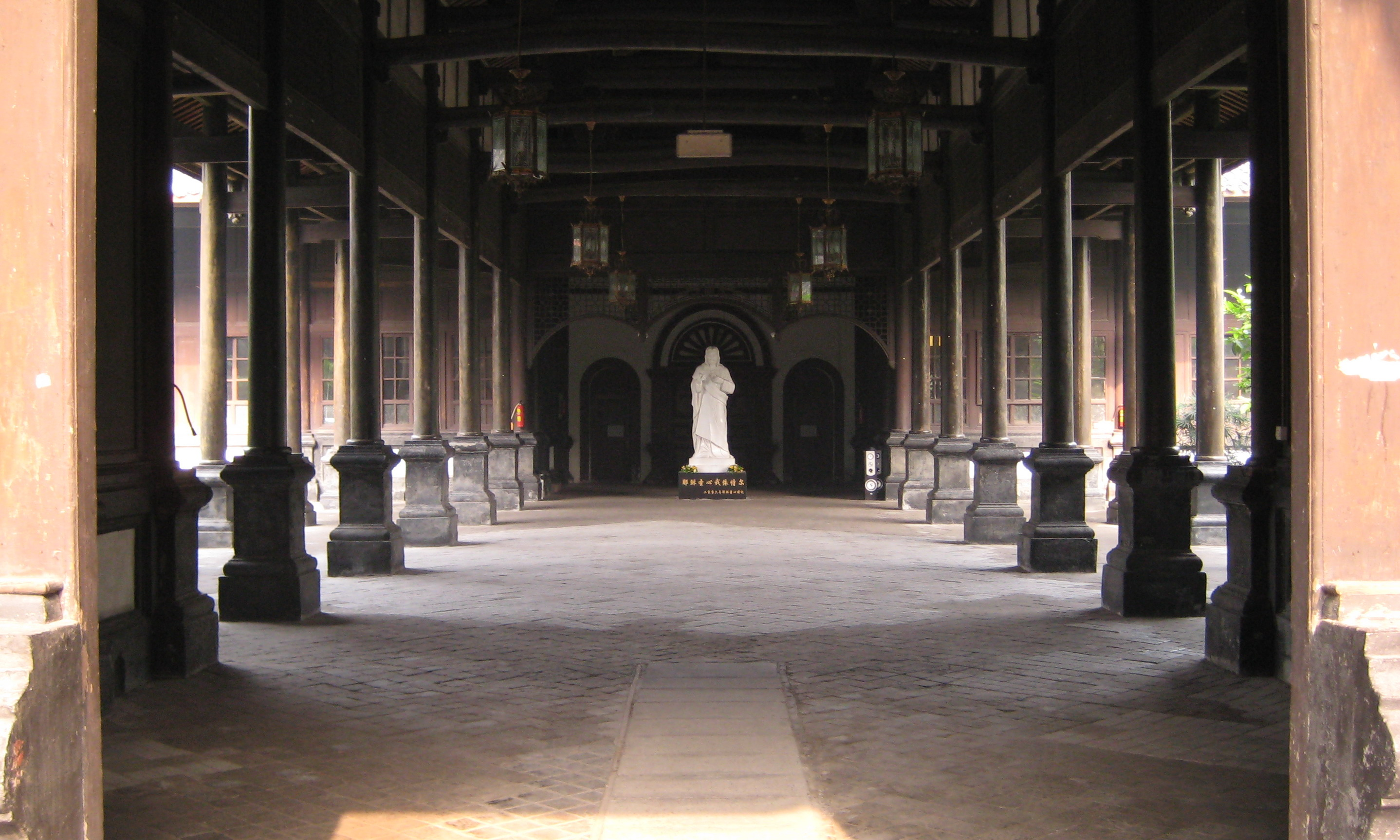 摄于2008年5月23日,于成都天主教主教座堂